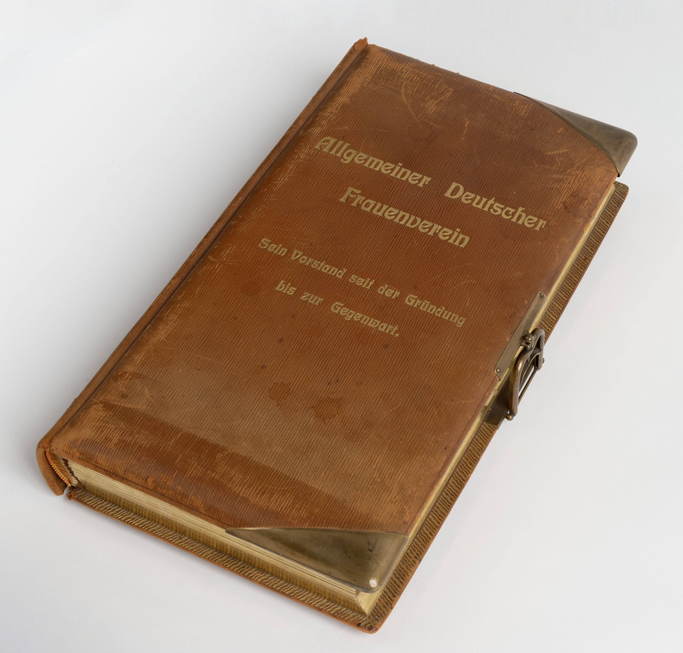 Album of Allgemeiner Deutscher Frauenverband (Universal German Women's Association) with photos of main activists, photo album, closed, leather, cardboard, photo paper, about 1900. Photo of album in repository of Archiv der deutschen Frauenbewegung (Archive of German Women's Movement), Kassel, Signature NL-K-08; 39. Photographer: Horst Ziegenfusz on behalf of Historisches Museum Frankfurt (Historical Museum Frankfurt). Published in Dorothee Linnemann (ed.): Damenwahl! 100 Jahre Frauenwahlrecht. Begleitbuch zur Ausstellung. Societäts-Verlag, Frankfurt am Main 2018, ISBN 978-3-95542-306-3, p. 70.